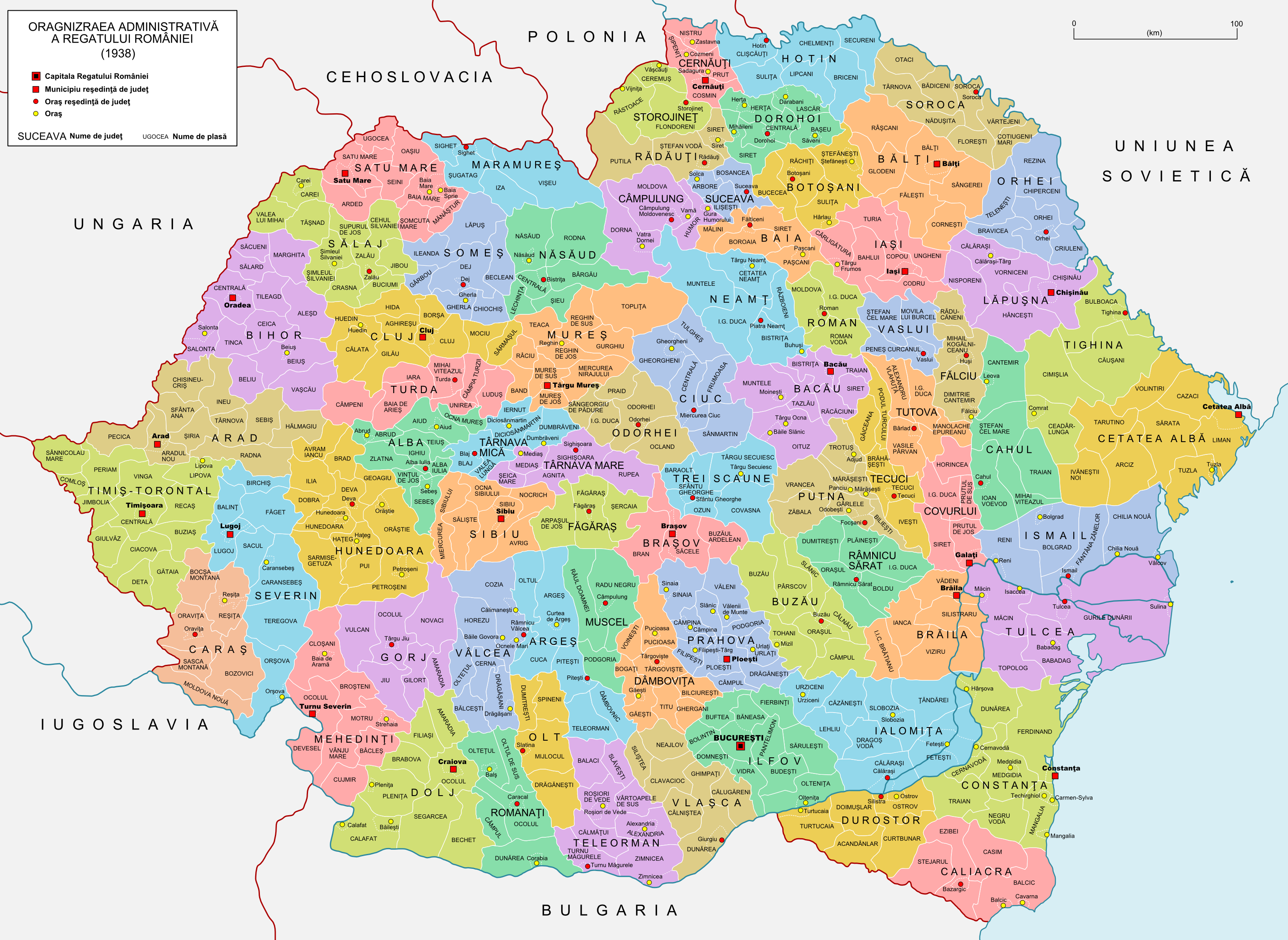 Administrative map of Romania in 1938.